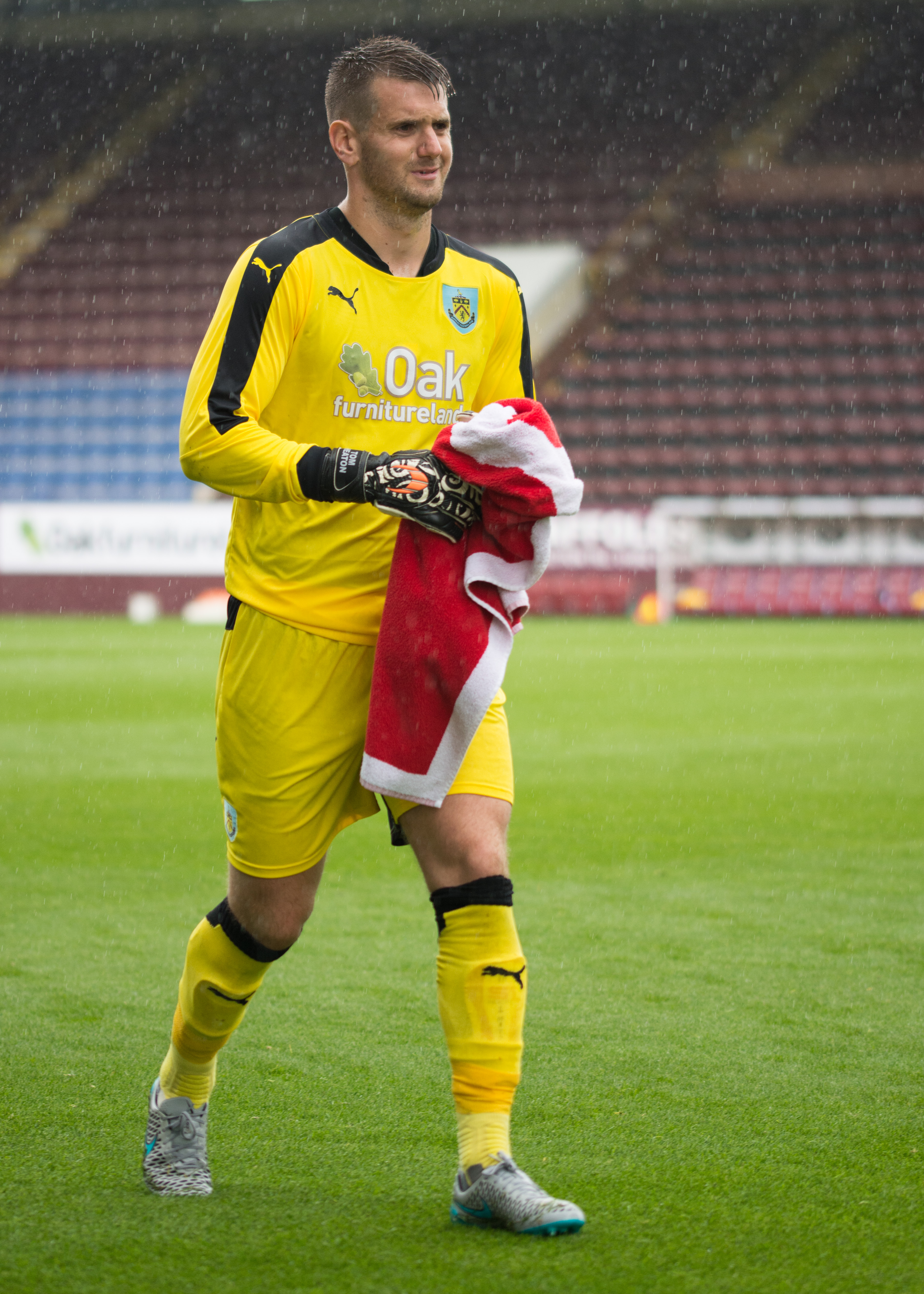 Tom Heaton playing for Burnley in 2015